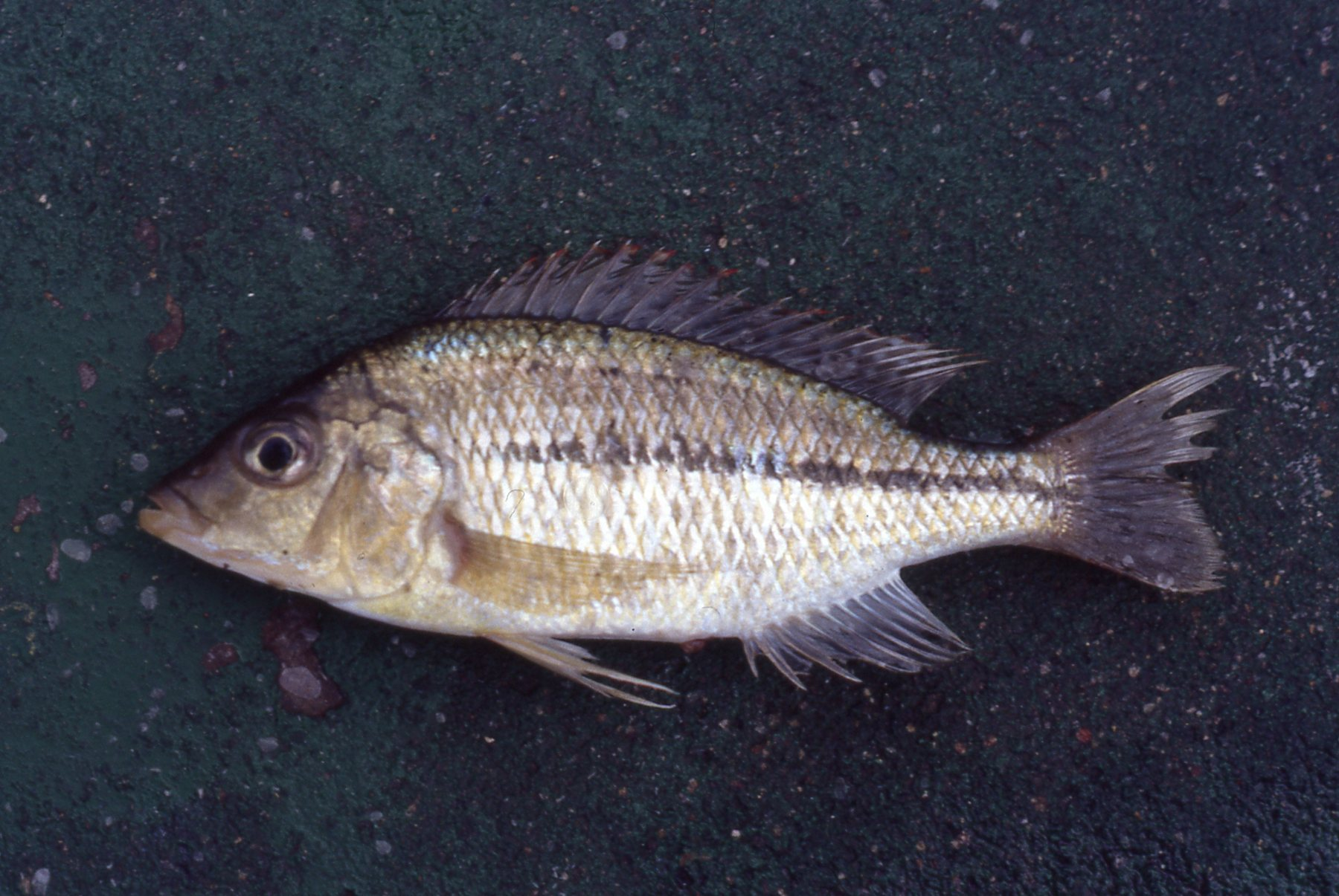 Protomelas kirkii, female, caught in beach seine at Monkey Bay, Lake Malawi